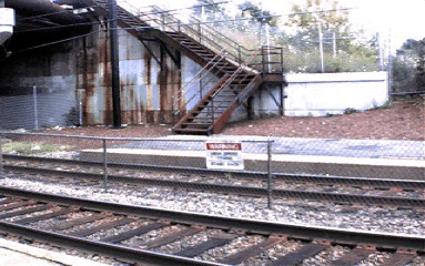 Outbound platform at Morton Street station before the 2006 reconstruction